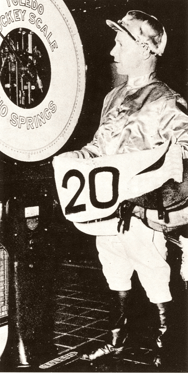 Australian Hall of Fame jockey, Harold Badger. He was Victoria’s leading jockey during the 1938-39 to 1942-43 seasons.